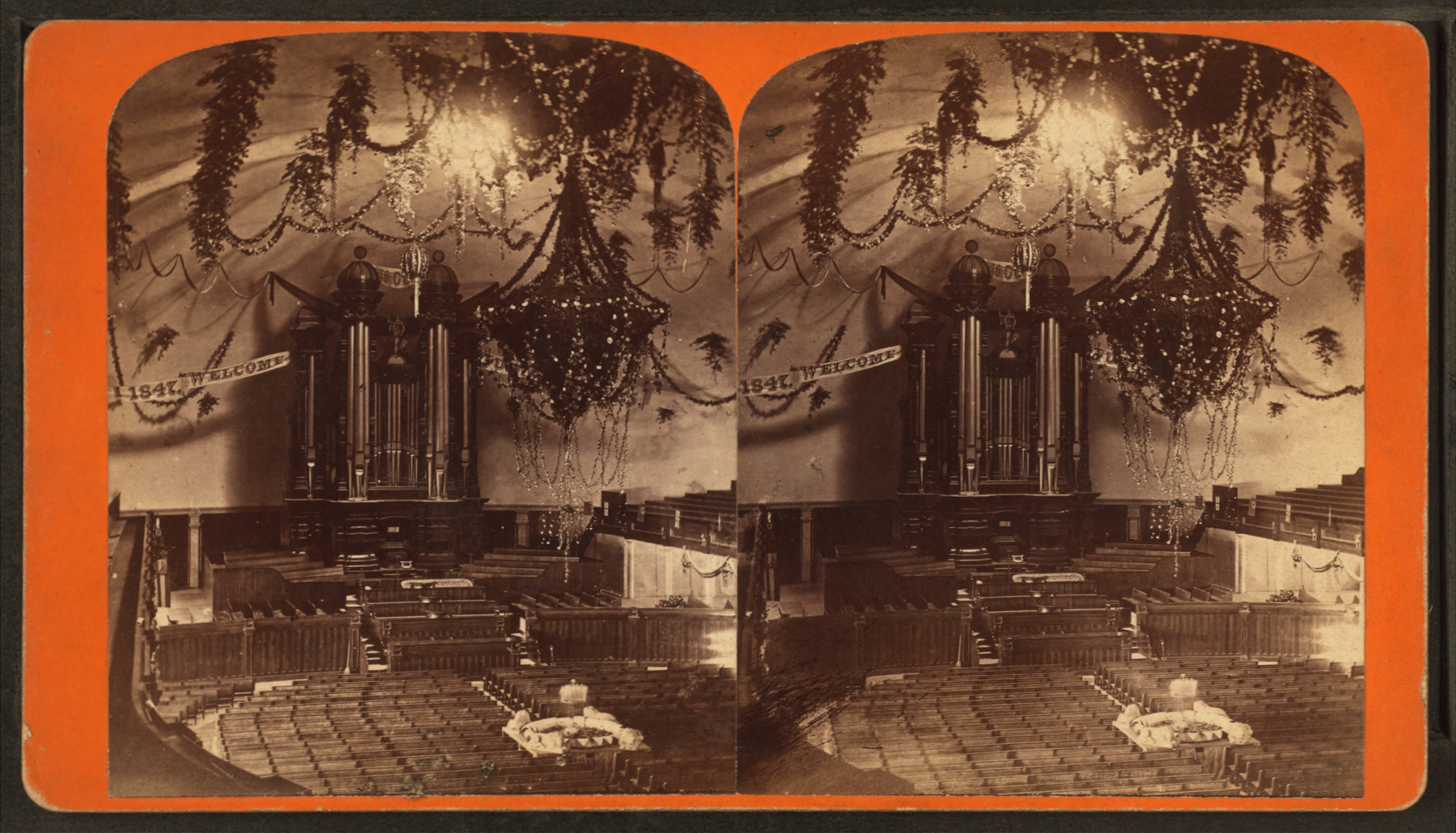 Evergreen boughs, garlands, and banners decorate the interior of the Salt Lake Tabernacle for the July 1875 Deseret Sunday School Union Pioneer Day celebration. Note the fountain at the center of the seating area, directly under the central chandelier. This image is the subject of an academic paper, due to its unique depiction of this event: Ronald W. Walker, Richard Neitzel Holzapfel, James S. Lambert. (2003) "Salt Lake Tabernacle Interior Photograph: Sabbath School Union Jubilee, July 1875," BYU Studies, Vol 42, No 2, Brigham Young University.